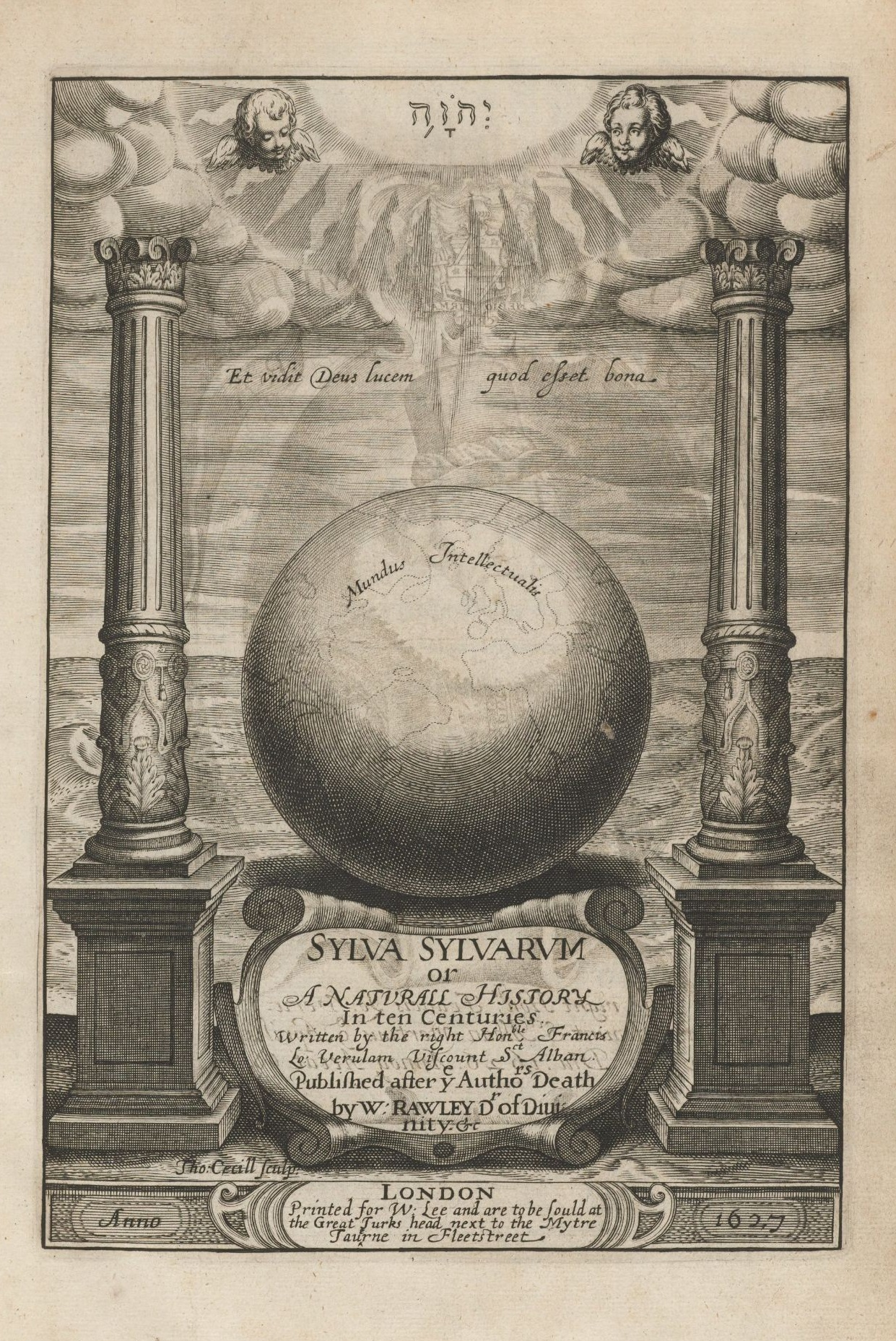 Frontispiece to Sylva sylvarum, or, a naturall history in ten centuries, 1626, by Francis Bacon (1561-1626). STC 1168, Houghton Library, Harvard University